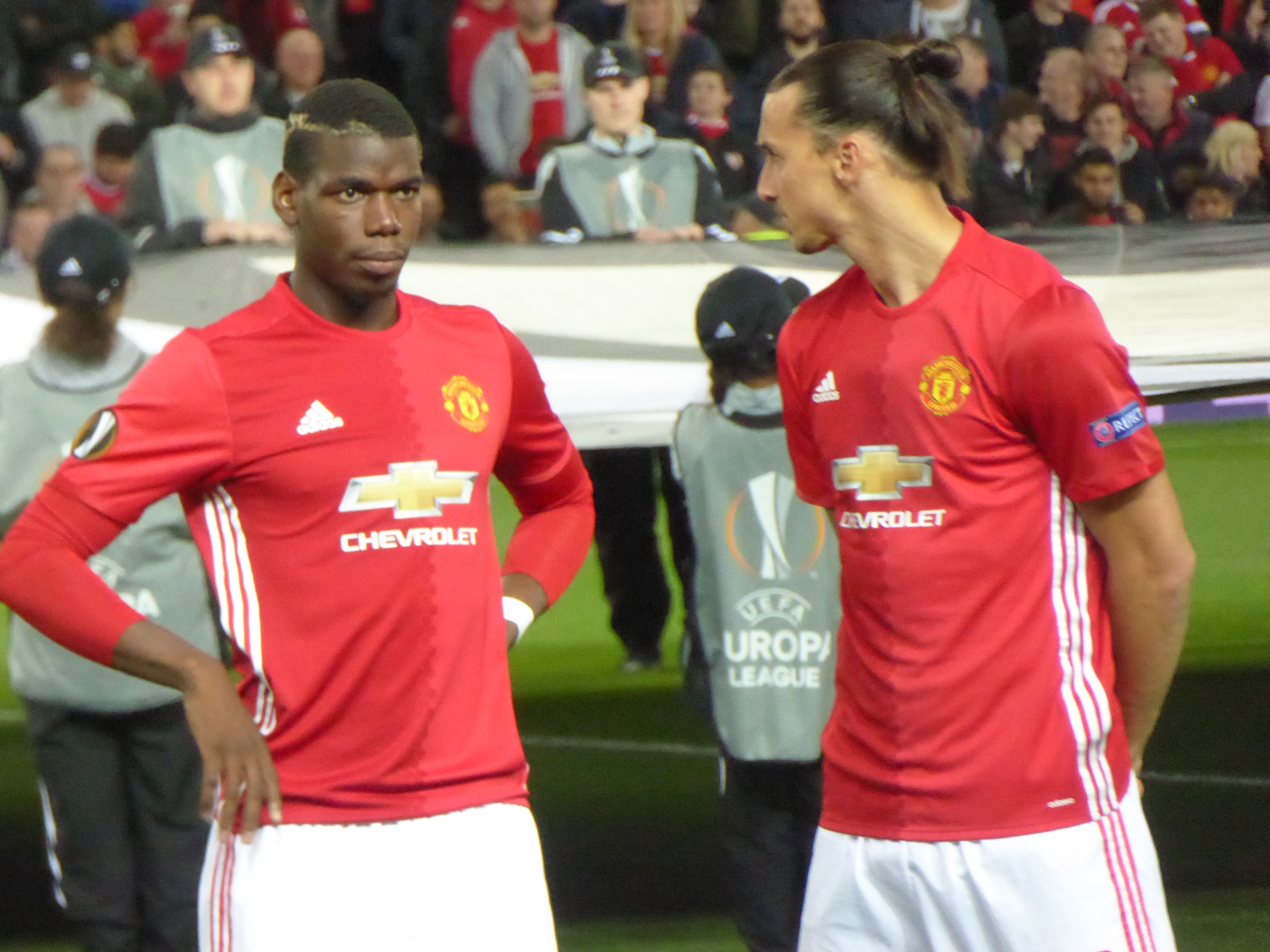 Manchester United v Zorya Luhansk (1-0), Europa League, Old Trafford, Manchester, Greater Manchester, England, September 2016.